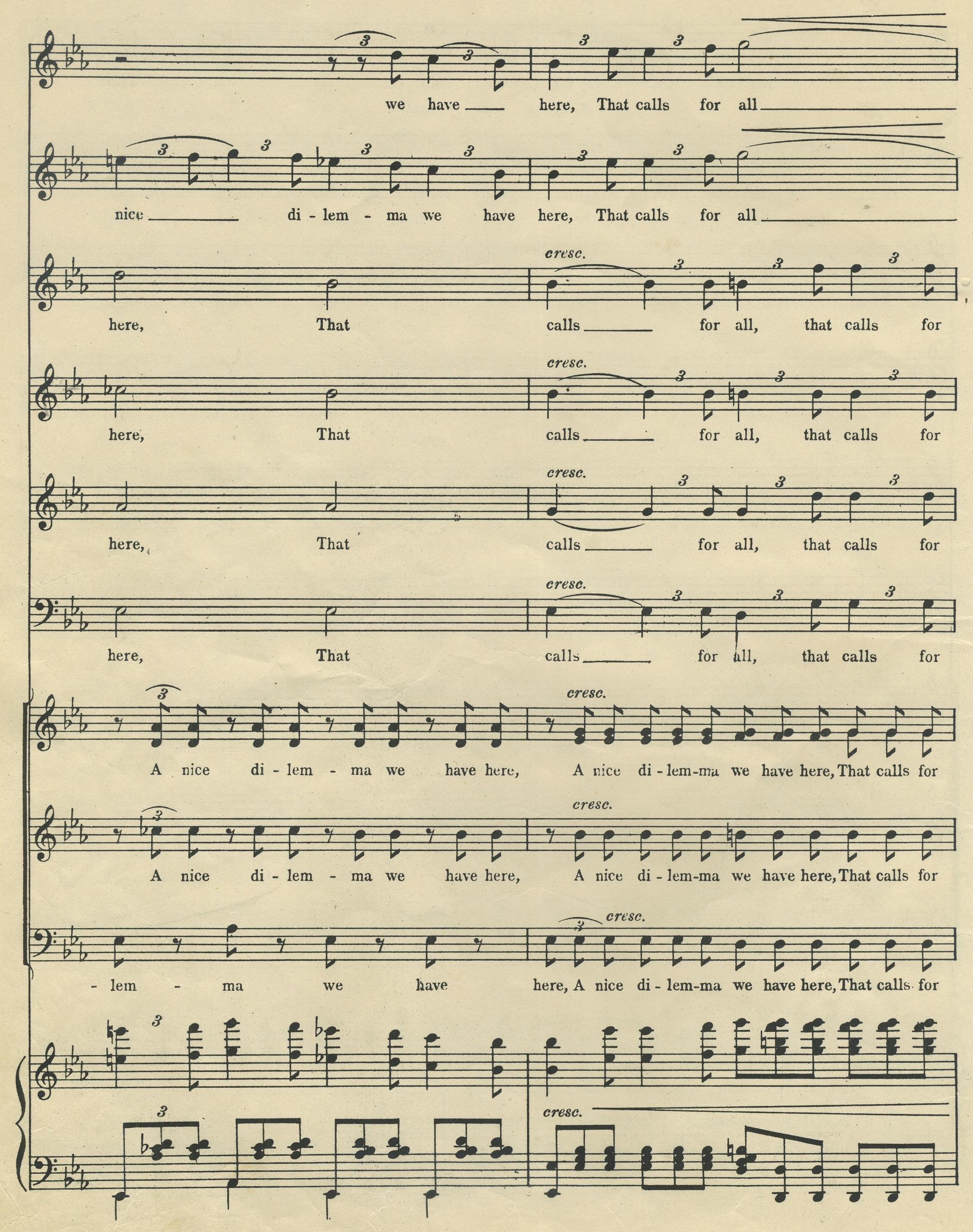 Page 50 of the Vocal Score of Trial by Jury, showing the complex vocal scoring of "A nice dilemma"